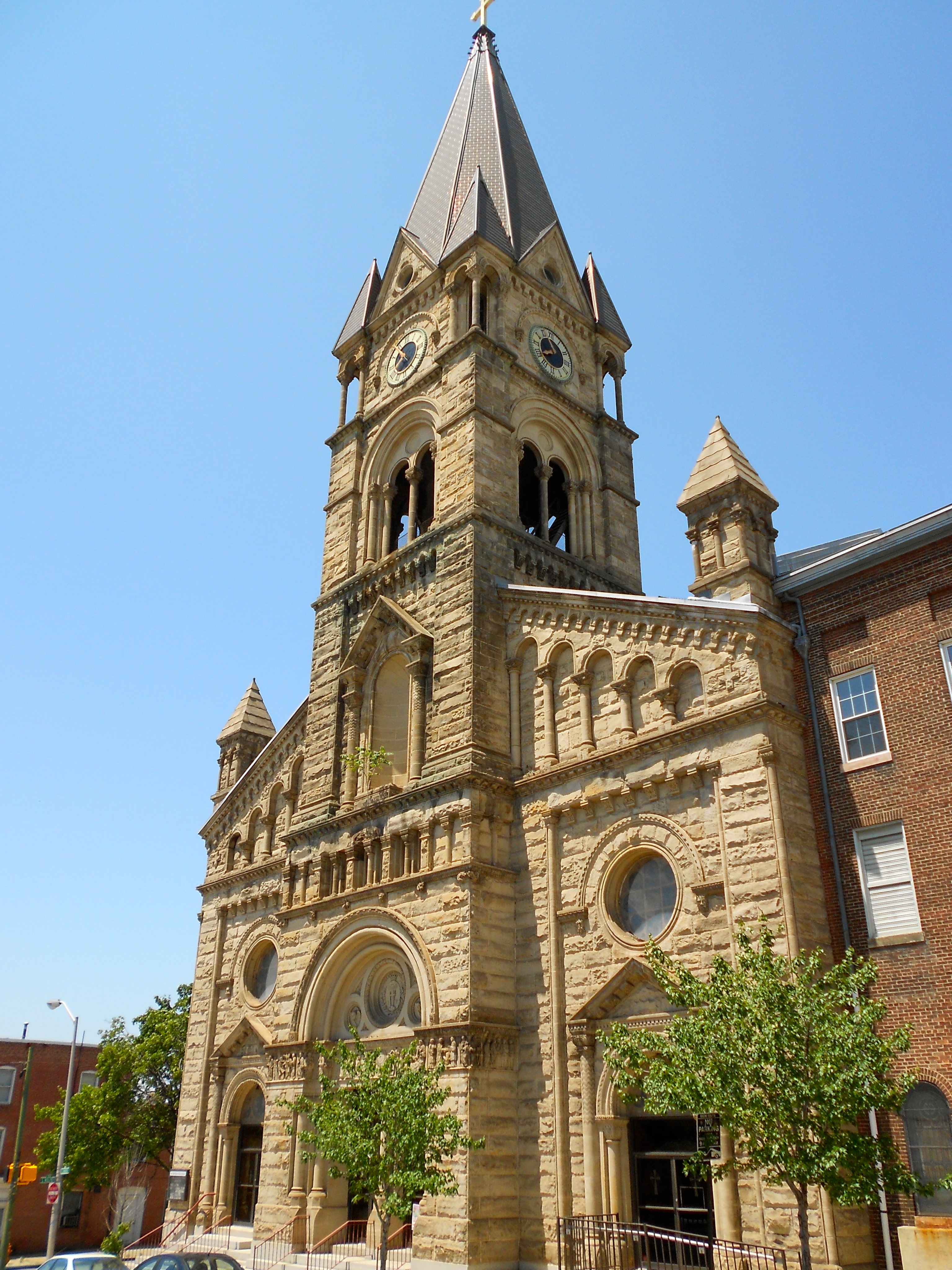 St.Micheals Church on the NRHP in Baltimore, Maryland.